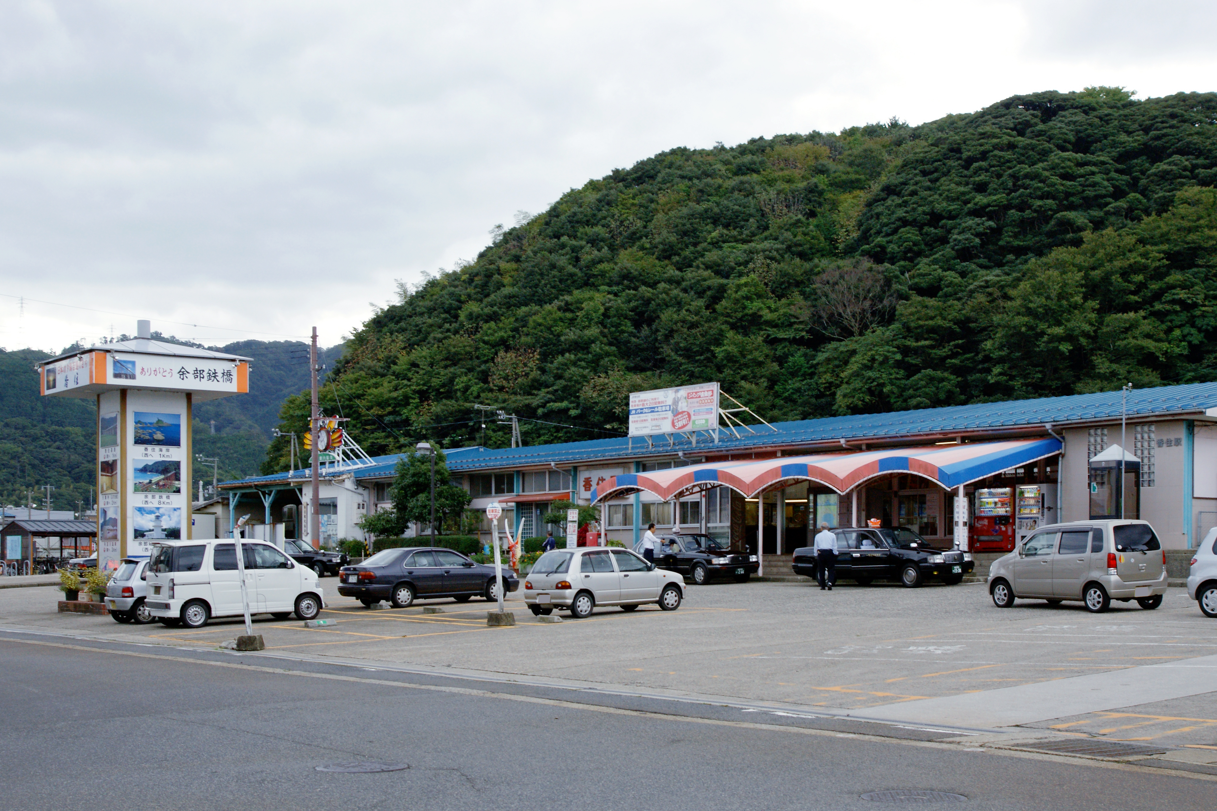 Kasumi Station in Kami, Hyogo prefecture, Japan